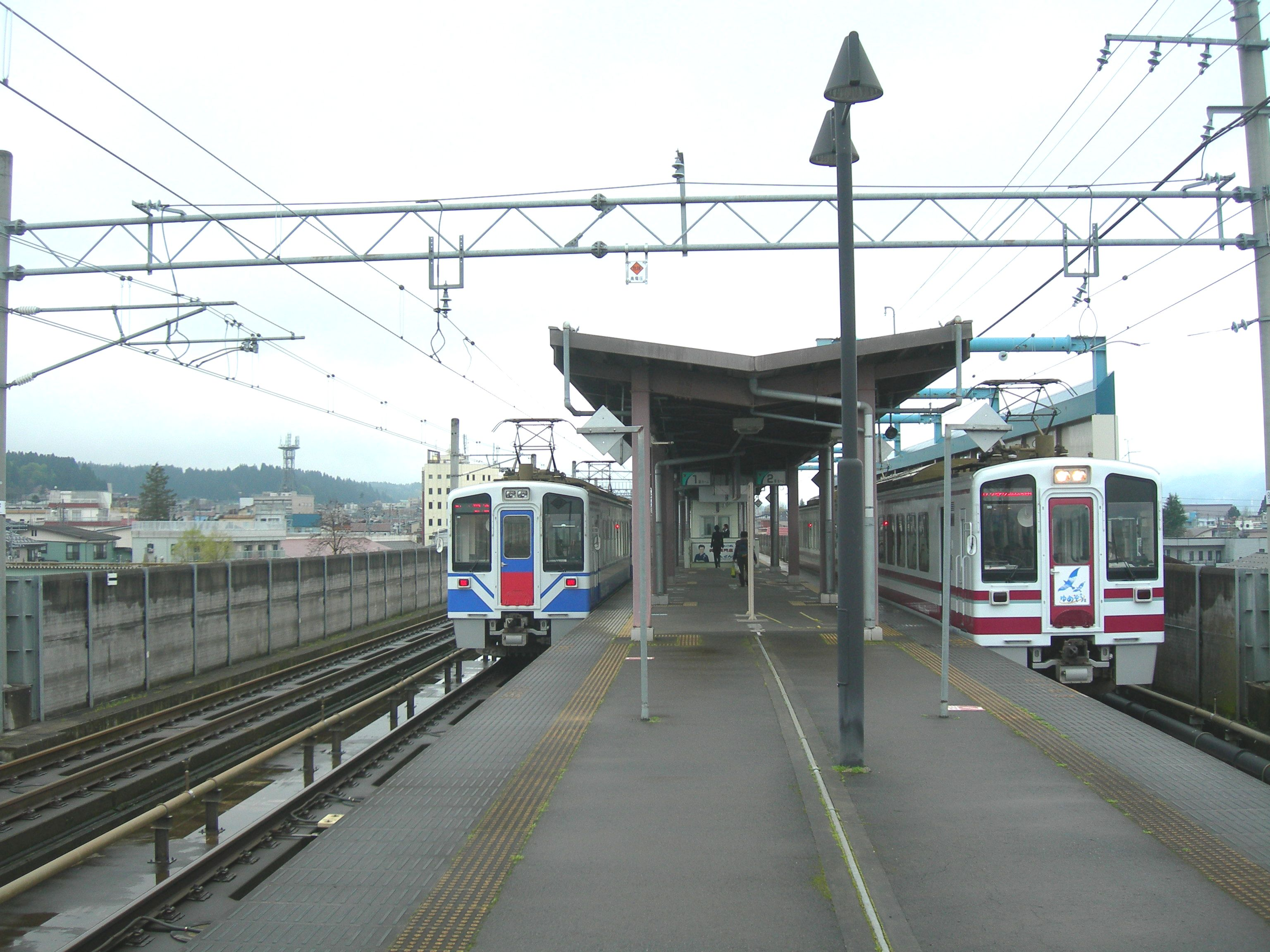 Hokuetsu Express platform at Tokamachi Station